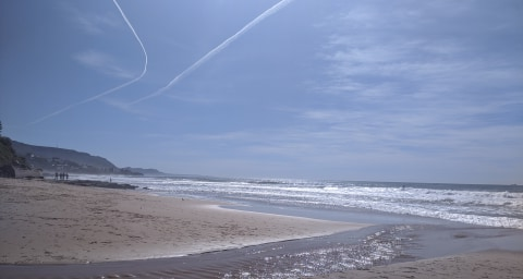 An image of McCauley's Beach, NSW, taken facing north on a sunny day. There are is a small group of people in the distance in the lower left hand corner.